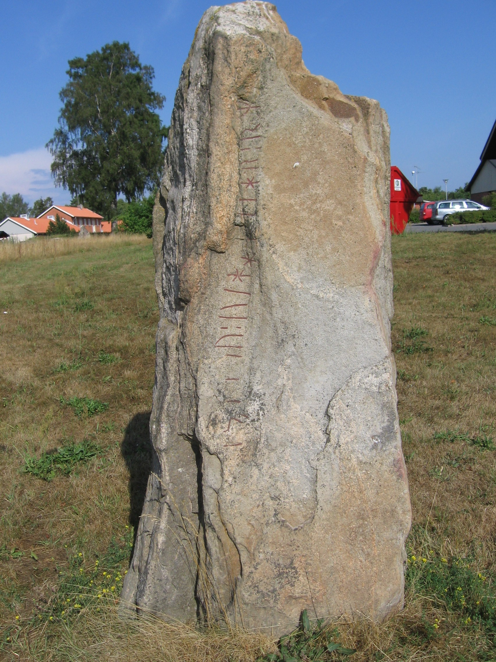 Runestone DR NOR1998;21 in the Swedish village Färlöv